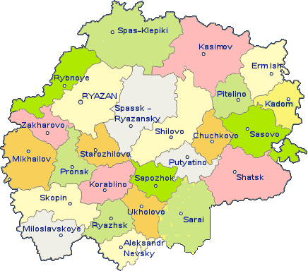 Map of Ryazan Oblast with administrative divisions (rayons)